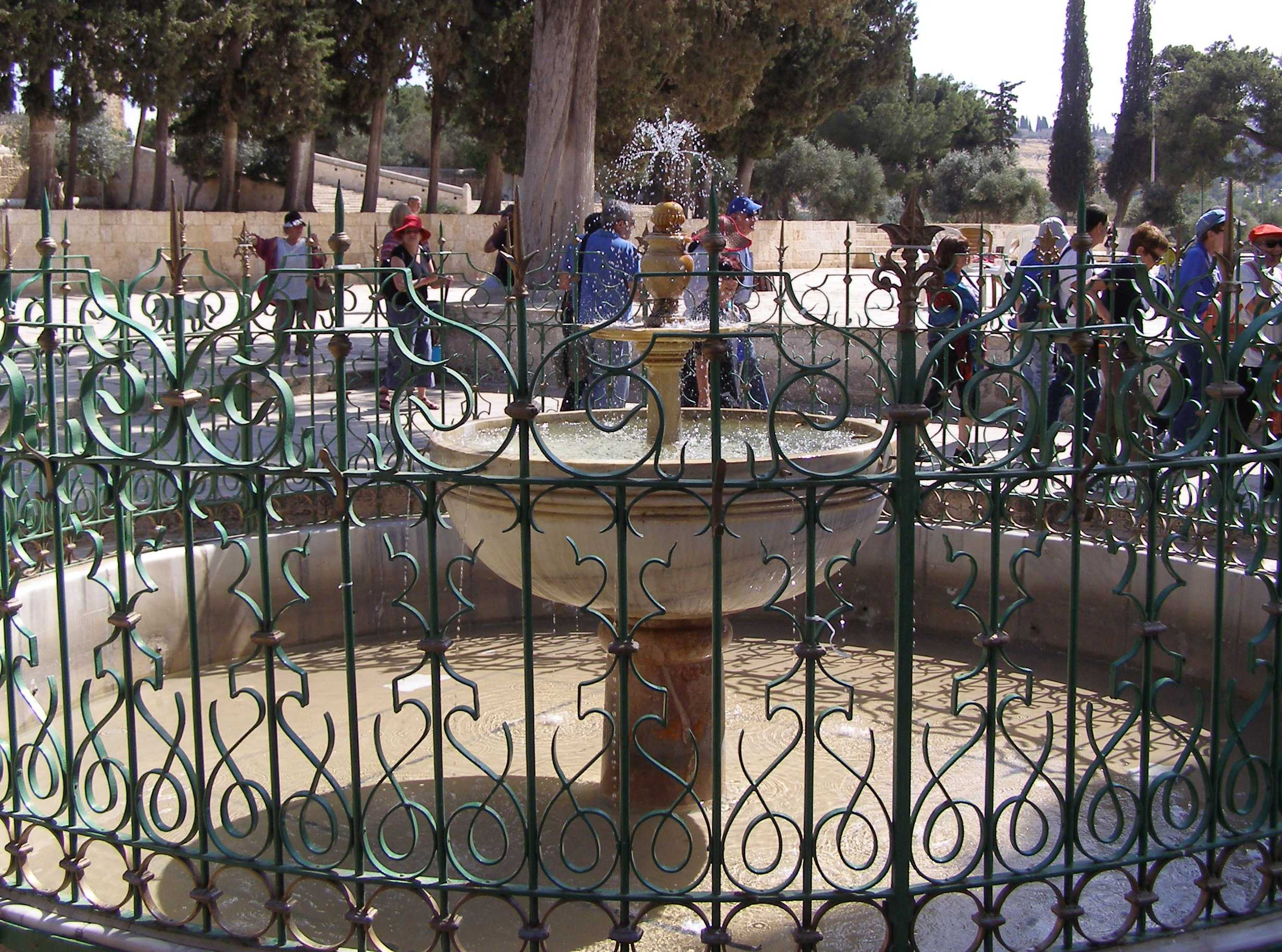 Temple Mount, Jerusalem Al Kas (the cup) fountain